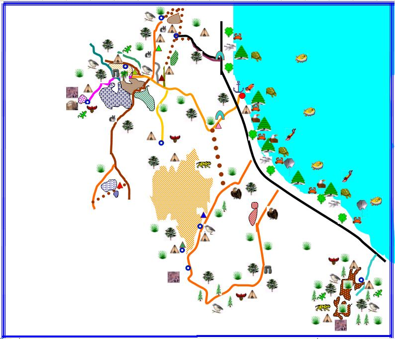 Map of Gebel Elba National Park, Hala'ib Triangle, Egypt/Sudan